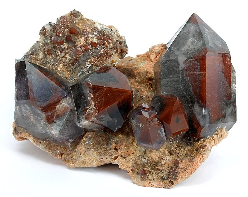 Hematite, Quartz Locality: Oranje River, Namibia Size: cabinet, 11.6 x 8.5 x 7.4 cm Quartz var. Amethyst included with Hematite This is on its own merits a gorgeous multicolored specimen has matrix of massive quartz as the host for a cluster of discrete, extremely sharp , prismatic quartz crystals. It is also ILLUSTRATED IN THE NAMIBIAN MINERALS MAGNUM OPUS, by Rainer Bode, page 734. Internally the crystals are gemmy, and color ranges from colorless to amethyst-purple. A later generation of growth contains rich hematite inclusions, with an unusually rich reddish-brown color and superb luster. This combination has embodied these crystals with incredible colors. The largest crystal measures 7.0 cm in length. No damage to the display face! It is also MUCH more eye-poppingly 3-dimensional in person. There is only a contact to the last crystal on the far left, on the back of the display face; and a tiny Wilber on the back side of the termination of the largest crystal. It is large, and has great visual presence.